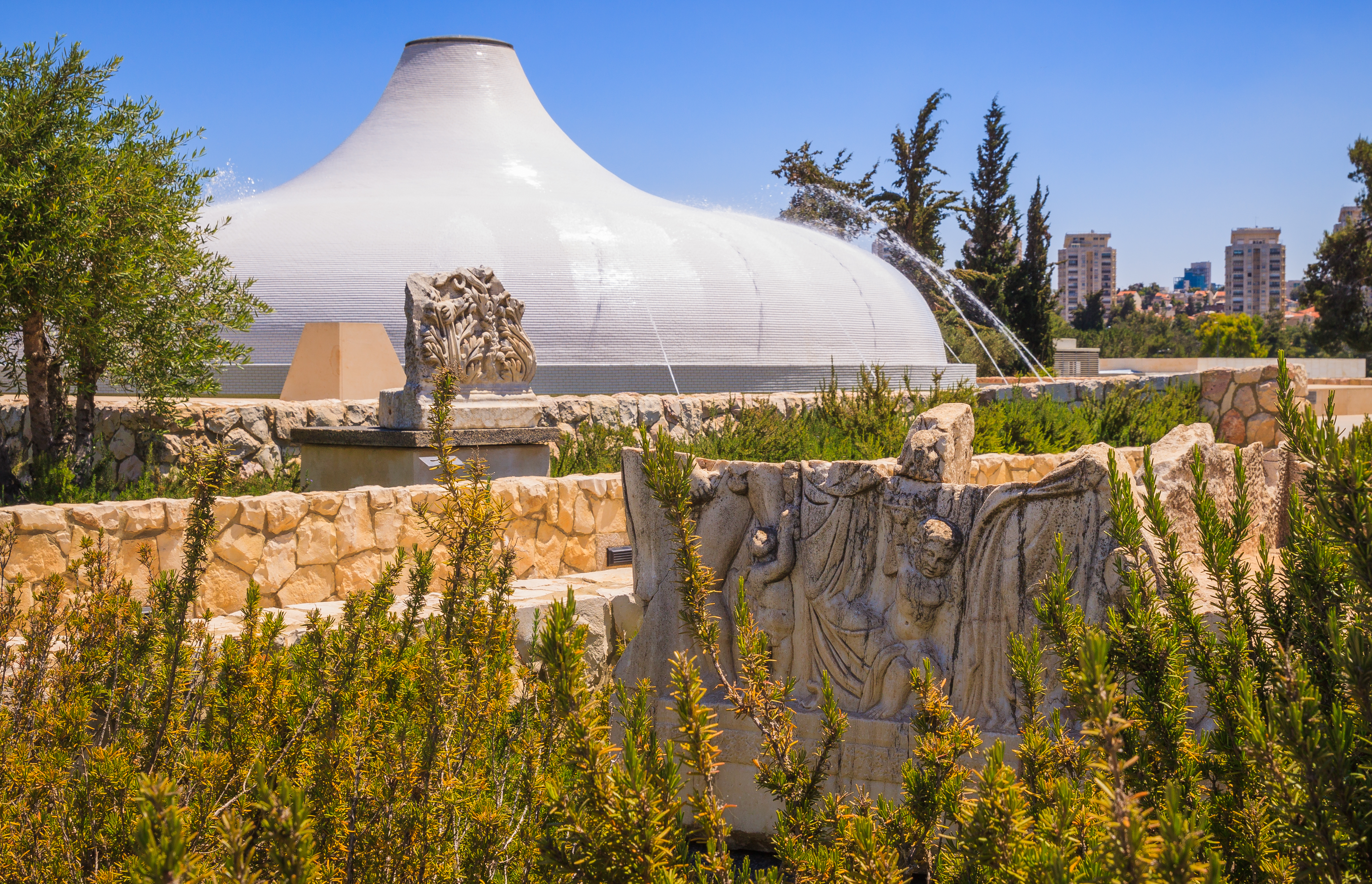 This is a view from the Billy Rose Art Garden of the cooling dome over the Shrine of the Book, which houses the dead Sea Scrolls (not allowed to take photos in there)...